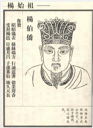 Yang Bo Qiao's photo refined version uploaded by: ADHZ07111989